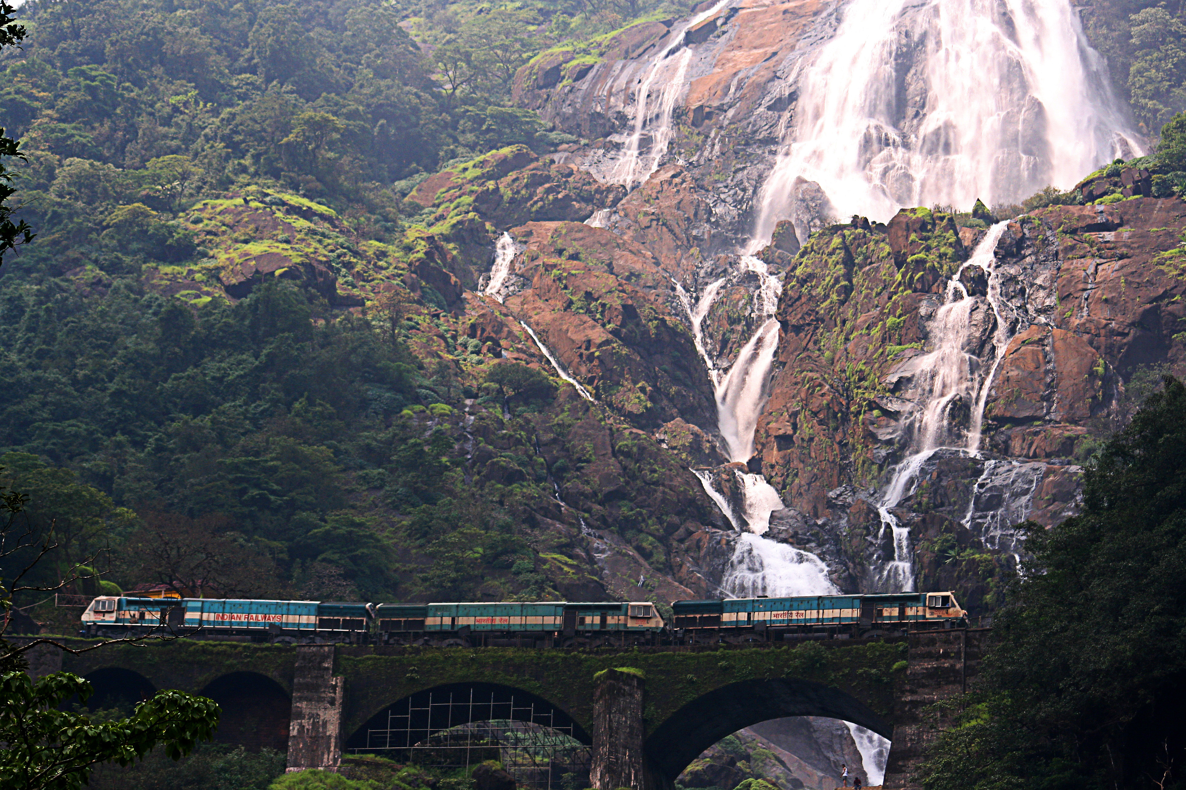 Triplet crossing Dudhsagar Falls